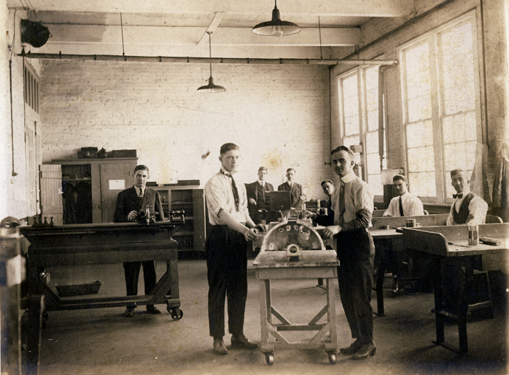 Foreman tool & die worker Harold Higgins (far left) and workers, including driver Eddie Pullen - tool room at Mercer Automobile Co., c. 1910. Photo from the estate of Thomas Higgins, donated by Janelle Higgins.